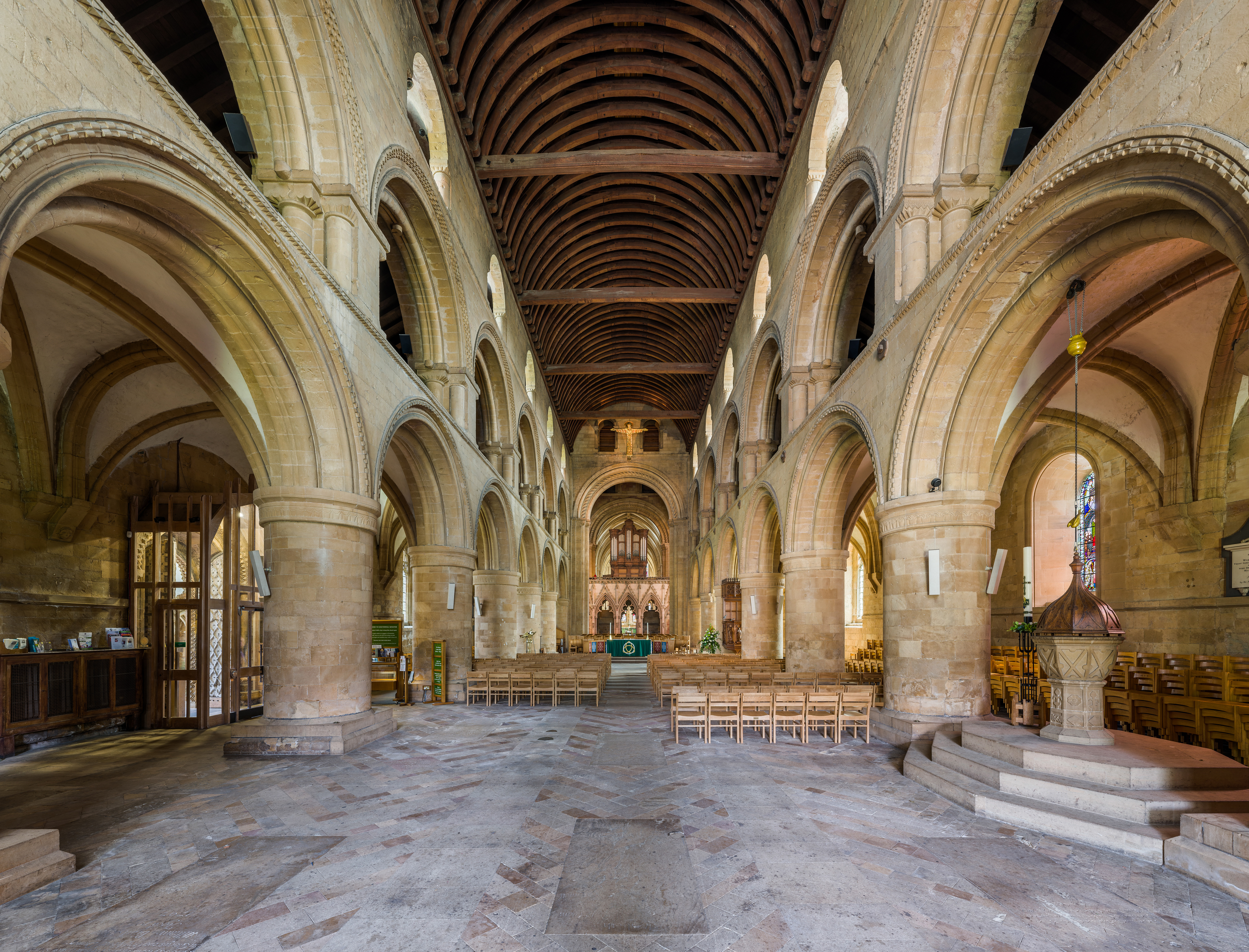 The nave of Southwell Minster in Nottinghamshire, England.